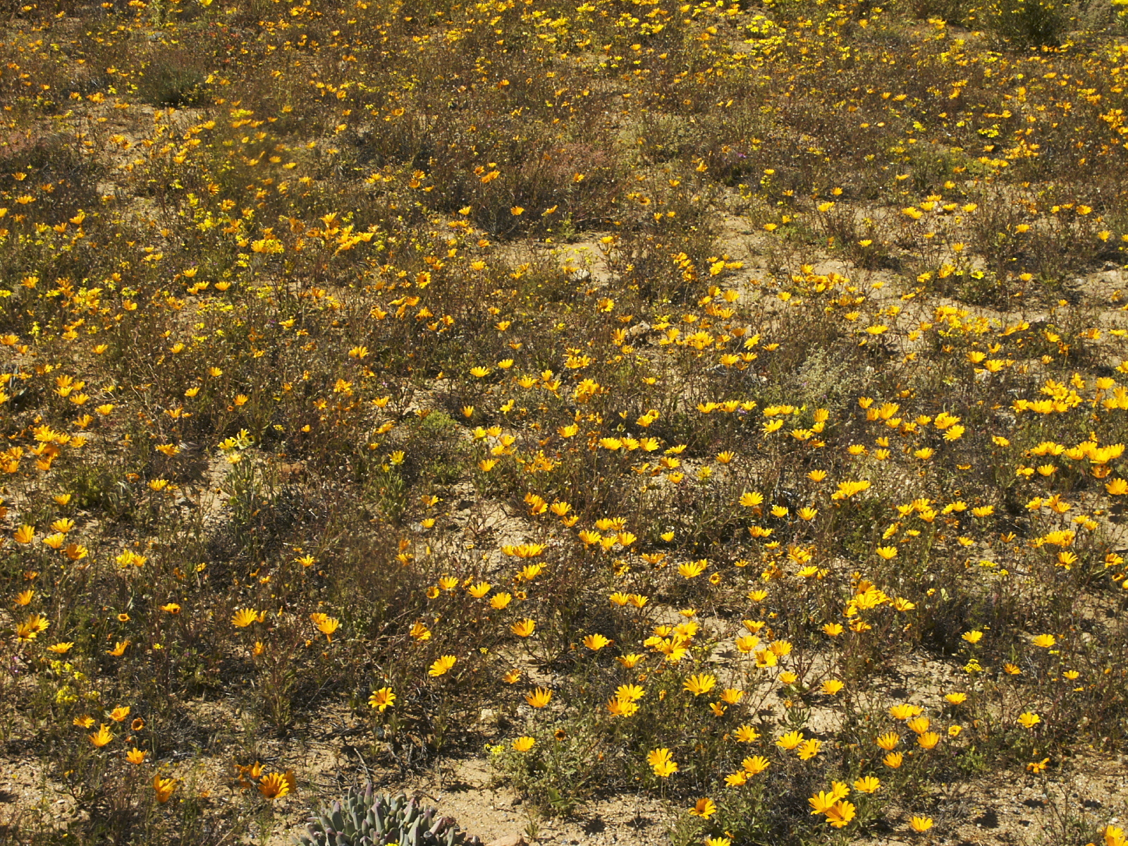 African daisy, Namaqualand daisy Dimorphotheca sinuata DC. , flowering Desert, Namaqualand, Goegap Nature Reserve, Northern Cape, South Africa